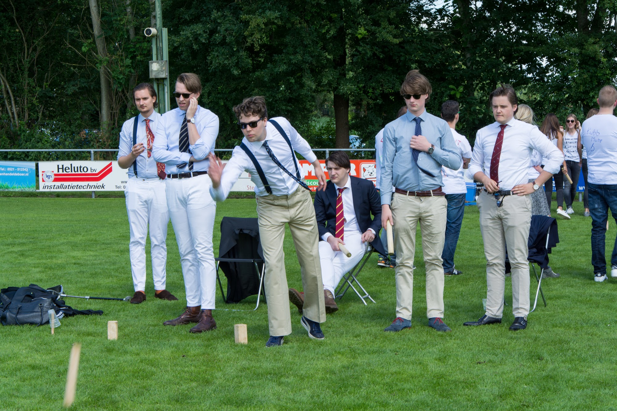 Dutch Kubb team NK Kubb